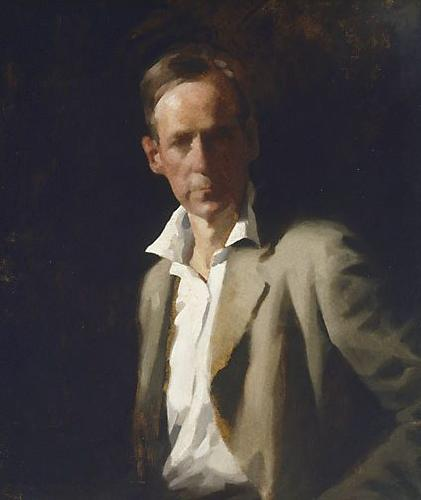 A self portrait of Australian award winning painter Albert Ernest Newbury